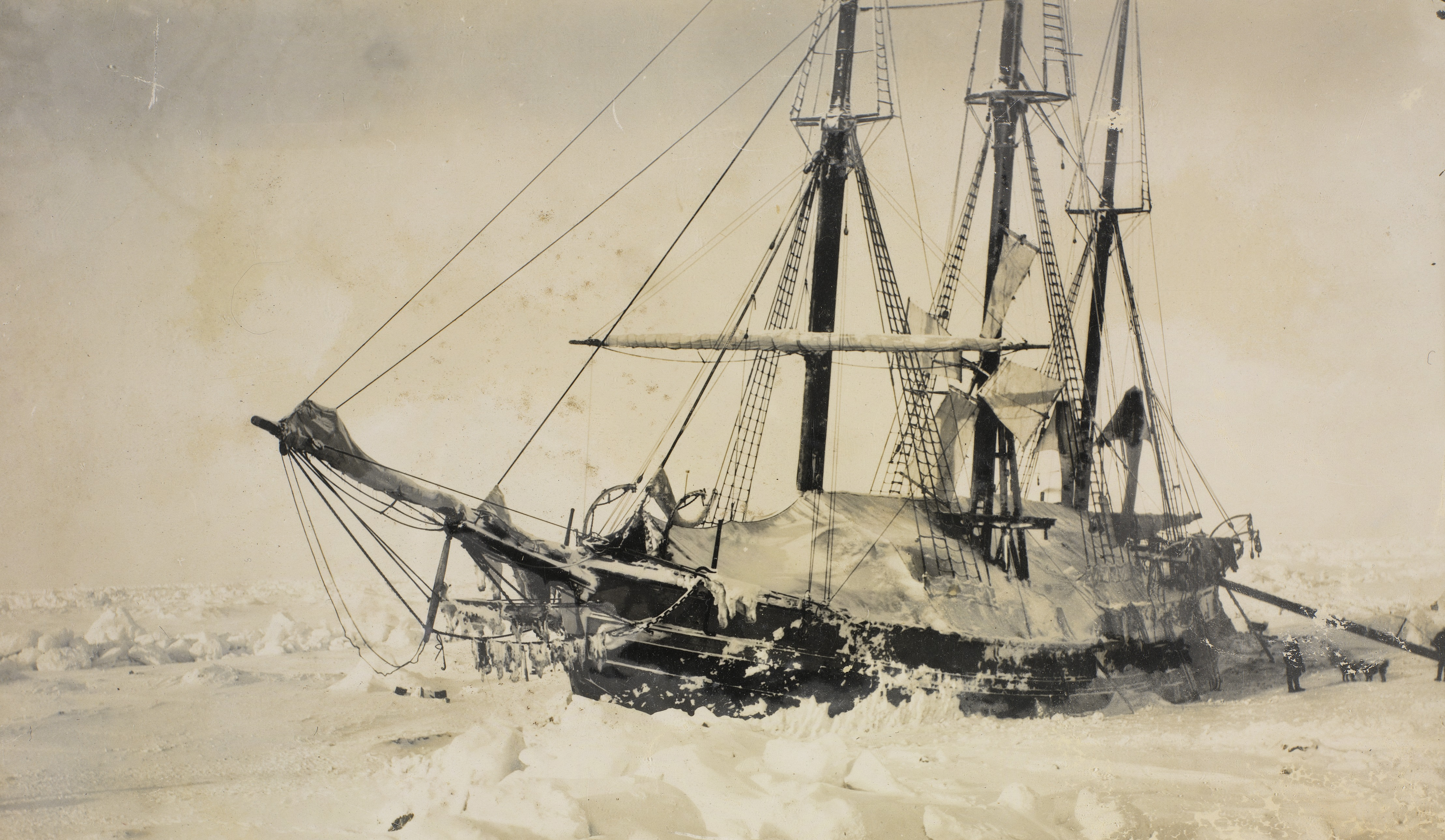 «Fram» in the ice. One of the pictures from the expedition with arctic ship toward the North Pole in the period June 24, 1893 to August 13, 1896. According to the plan, the ship was to drift in the ice with the ocean current from the coast of Siberia across the North Pole to Greenland. The goal, to get to the North Pole, was not reached, but the scientific evidence gathered was of great importance to arctic research.